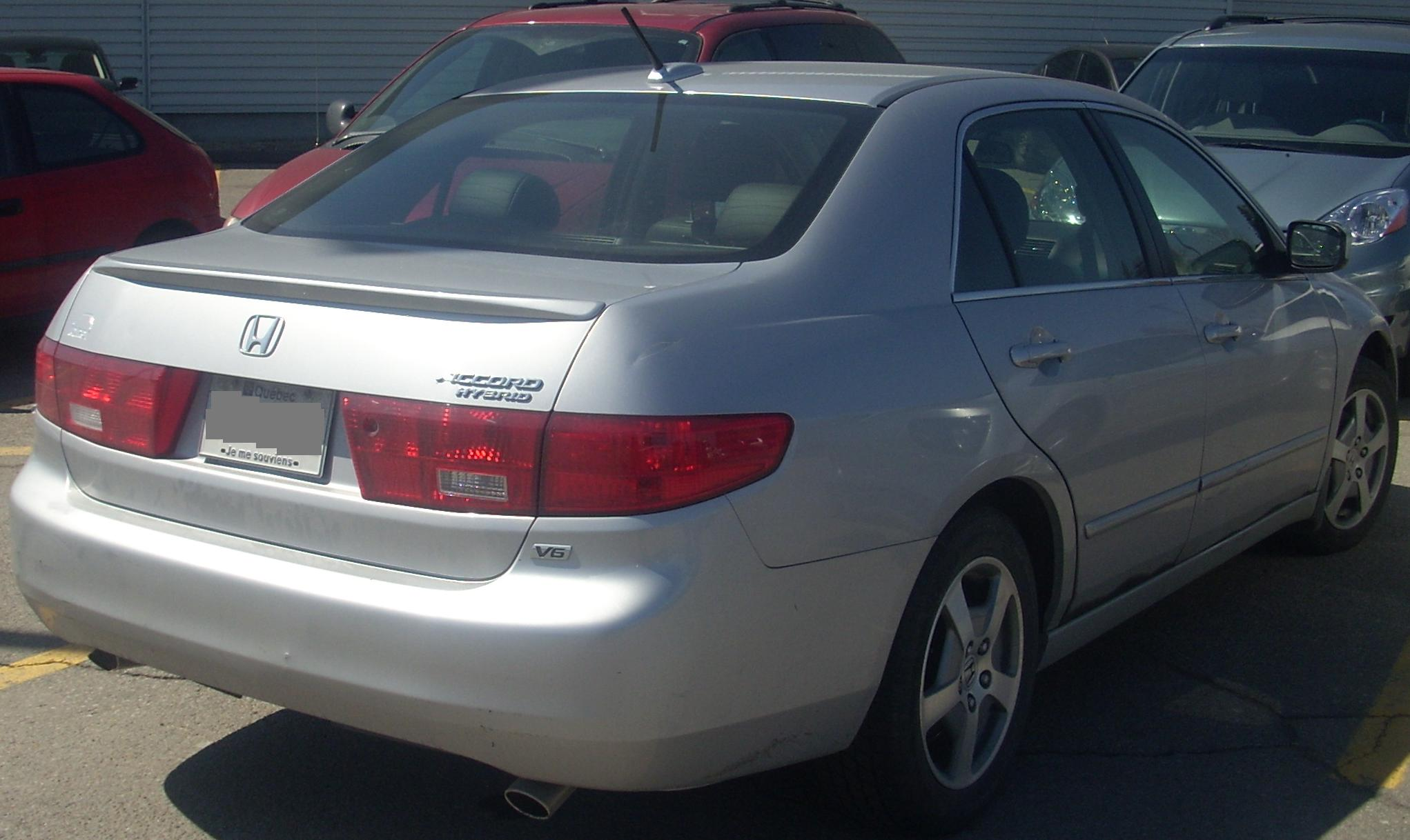 2005 Honda Accord Hybrid photographed in Pointe Claire, Quebec, Canada.